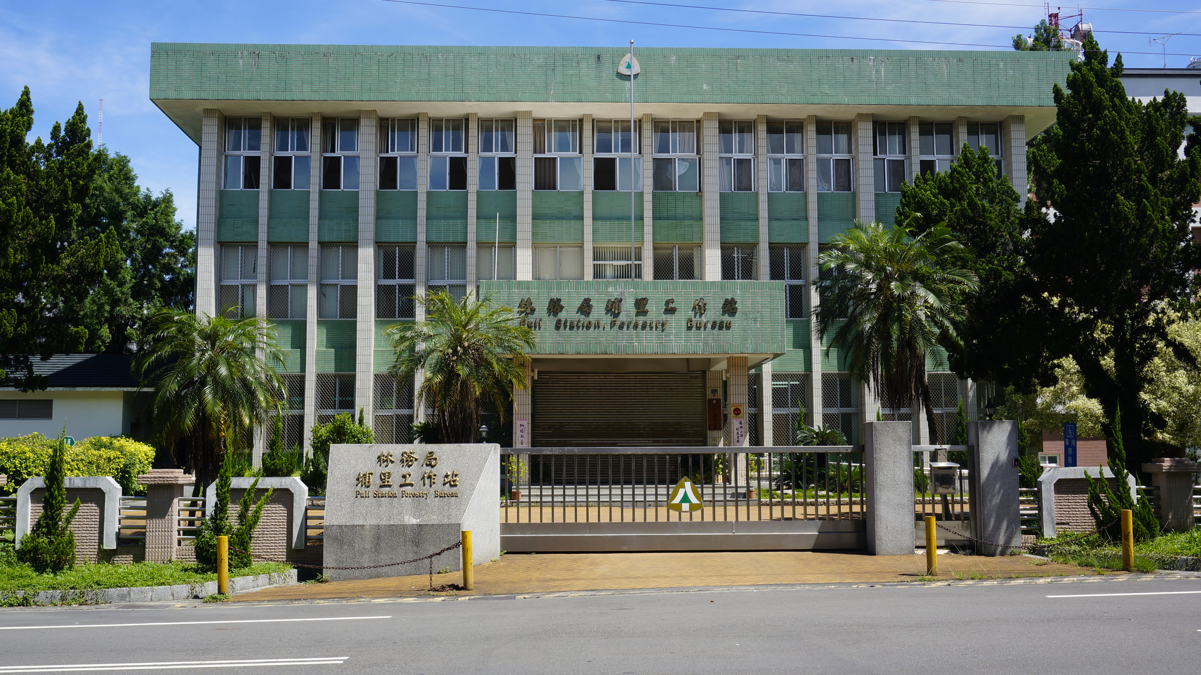 Puli Working Station, Nantou Forest District Office, Forestry Bureau, COA. 中文（台灣）: 行政院農業委員會林務局南投林區管理處埔里工作站。